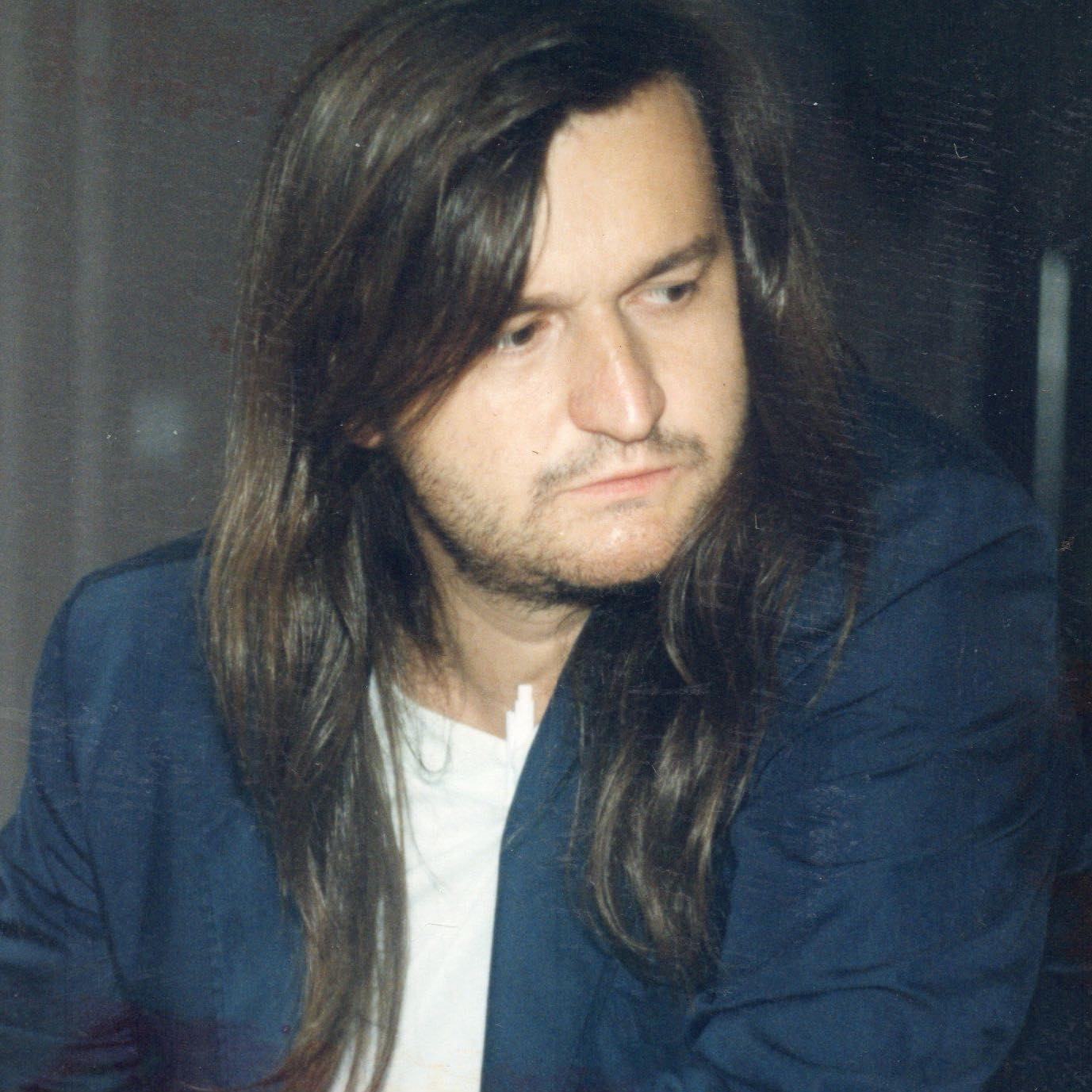 portrait of aleksandar wohl